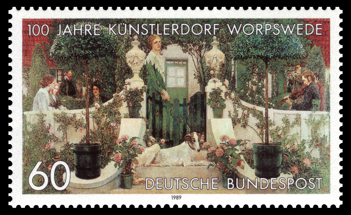 100 years of Künstlerdorf Worpswede (region 'artists village' in Worpswede)